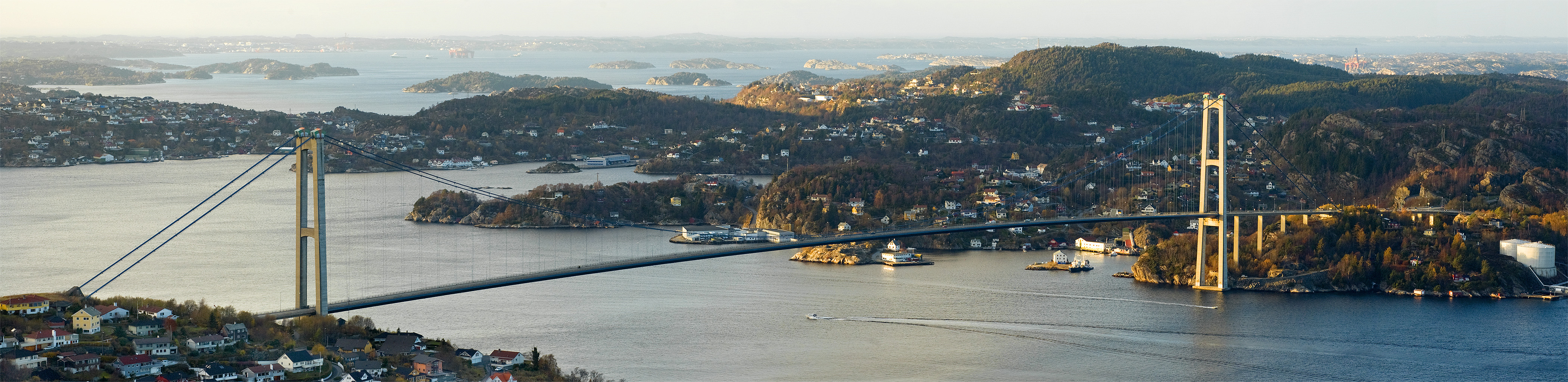 The Askøy Bridge between Askøy and Bergen in Hordaland, Norway.